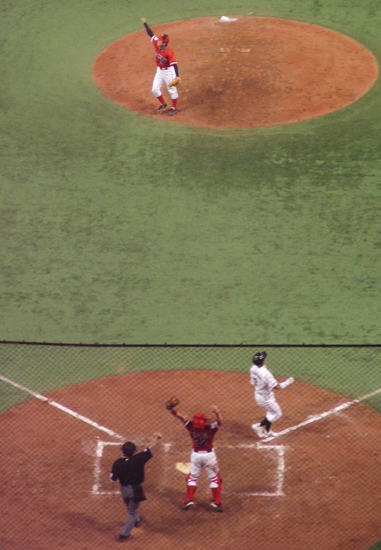 The Intercity Baseball Tournament 2007